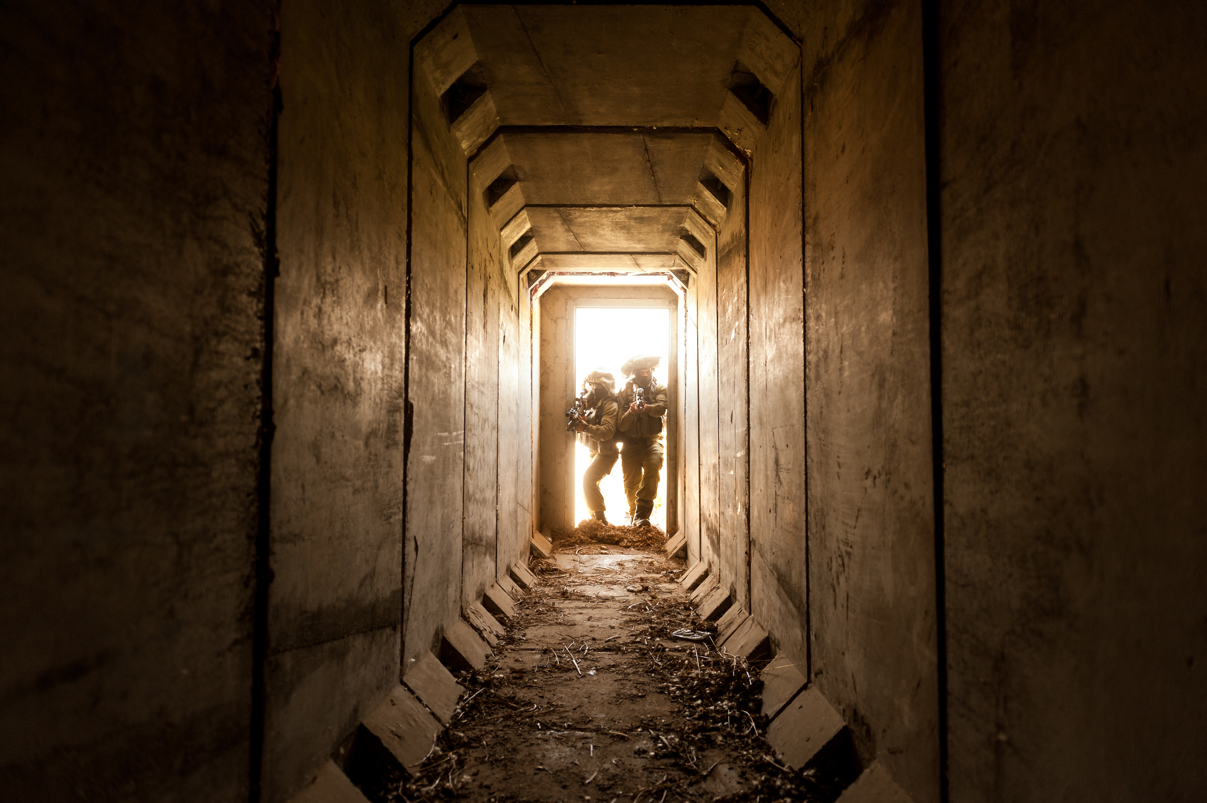 Soldiers from the elite reconnaissance unit, Rimon take part in a training exercise inside a tunnel.